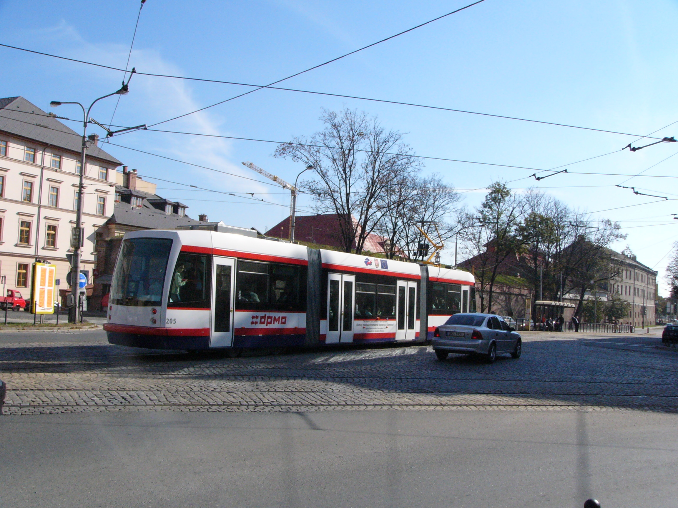 Tram Inekon 01 Trio in Olomouc (The Czech Republic).